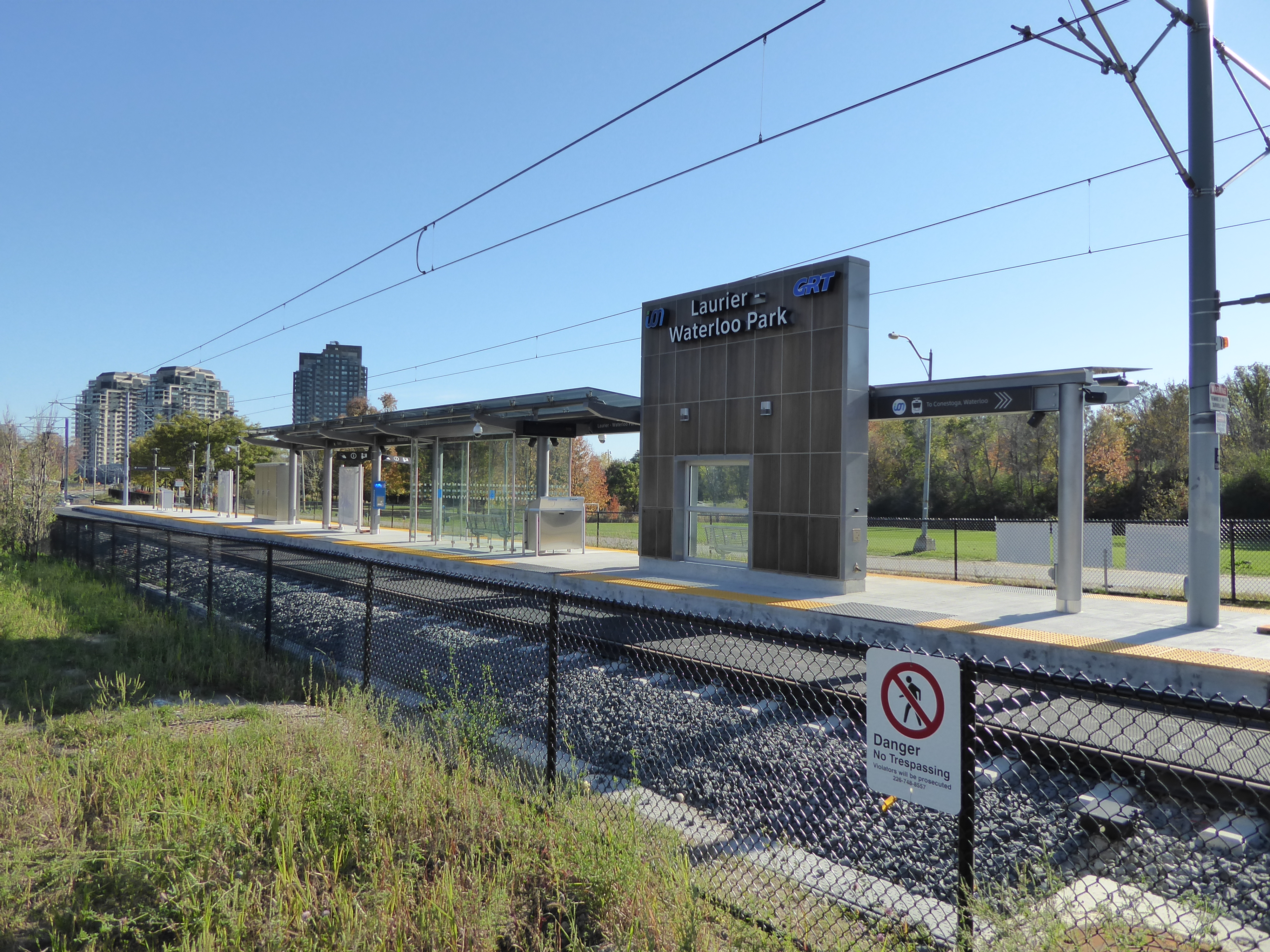 Laurier–Waterloo Park Station of the Ion rapid transit system, photographed structurally complete October 2017